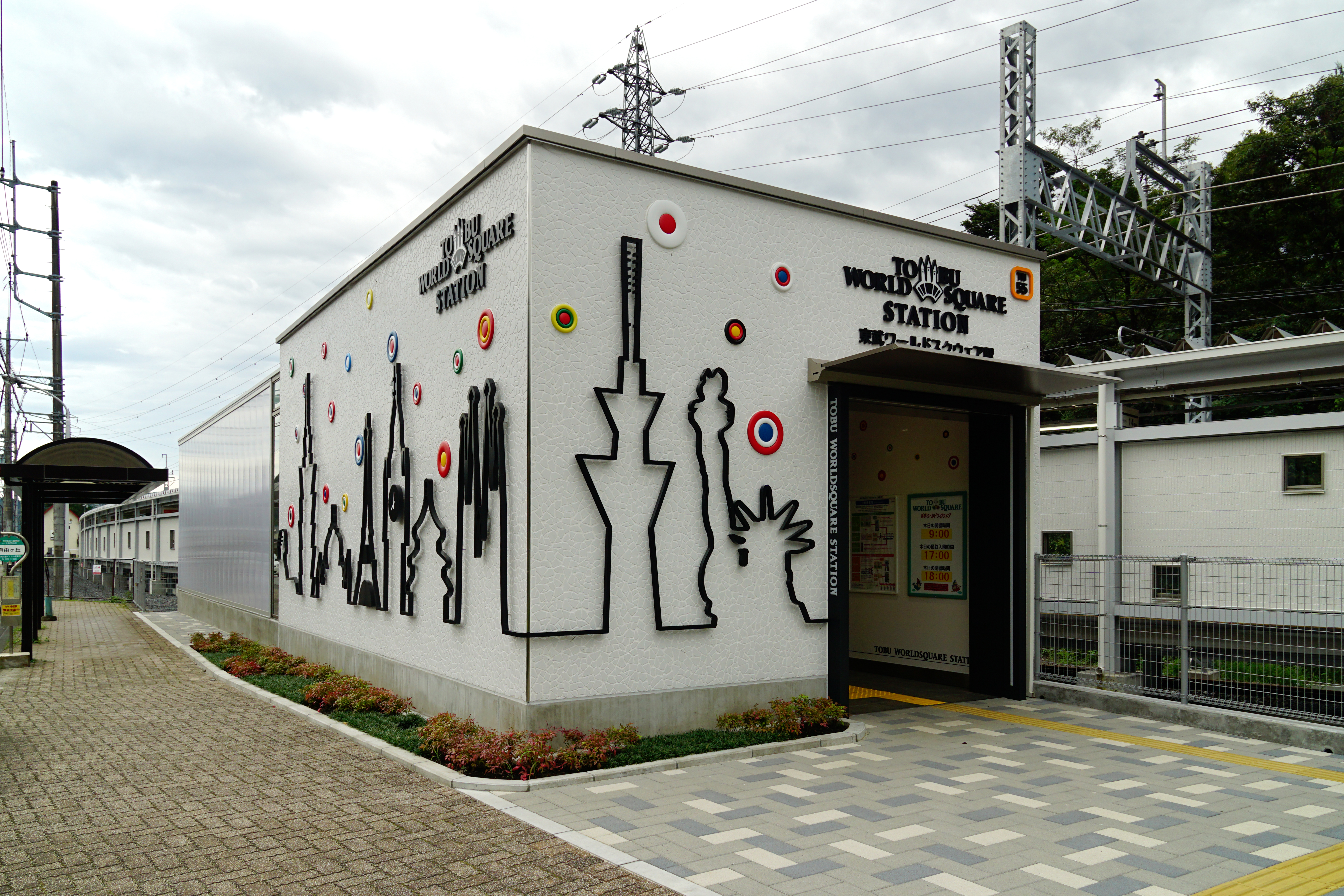 Tobu World Square Station on the Tobu Nikko Line in Nikko, Tochigi prefecture, Japan